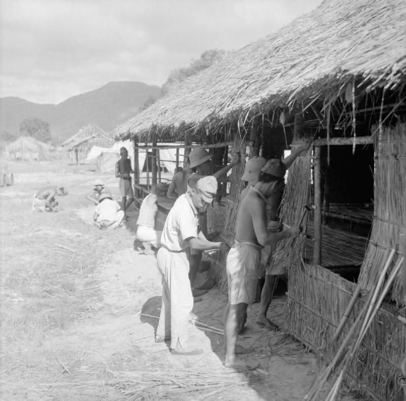 The Allied Reoccupation of French Indo-china Japanese prisoners of war complete the construction of their own living quarters at a camp at Cape Saint Jacques by thatching the roof and walls. The camp housed up to 38,500 prisoners.